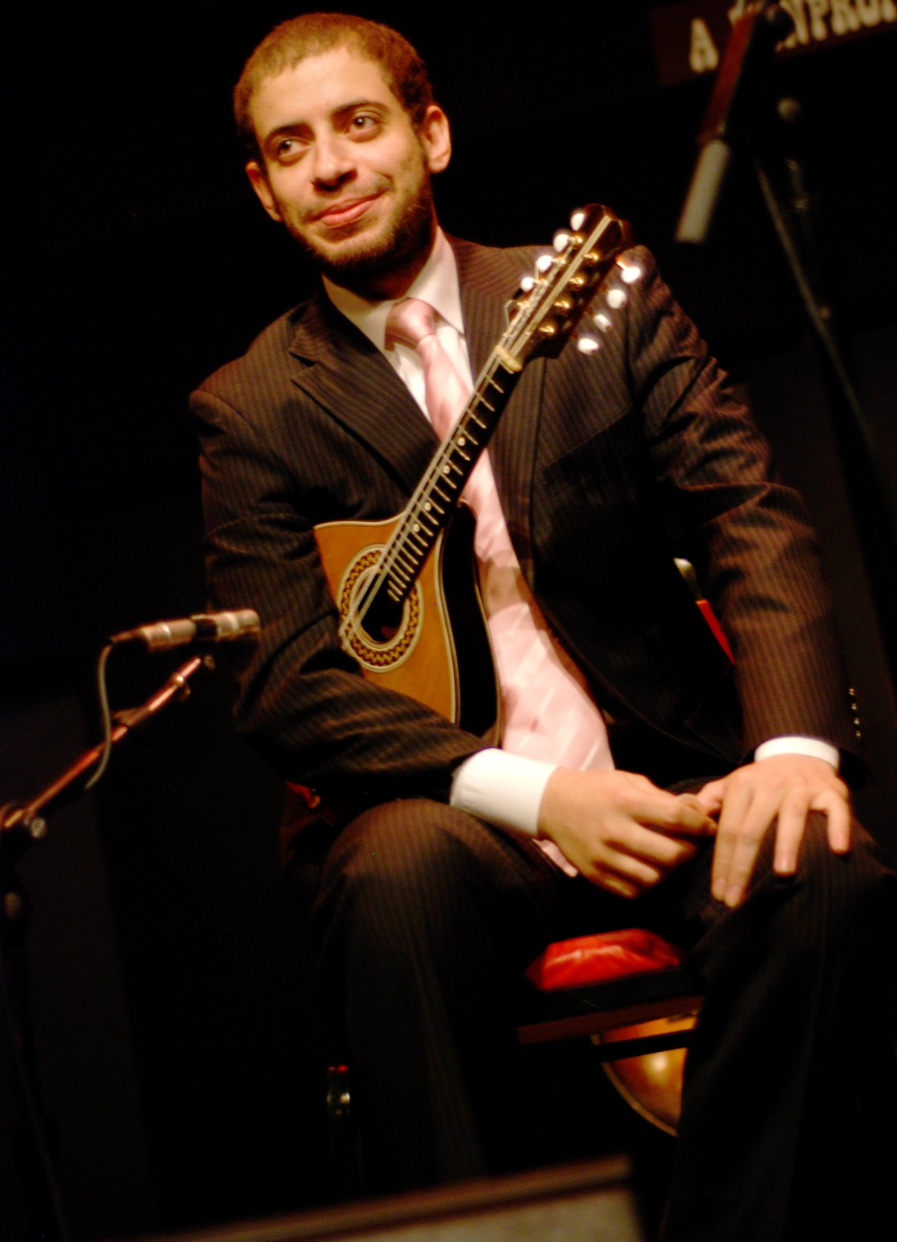 Danilo Brito image.